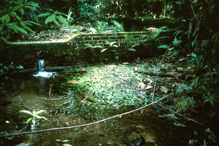 Cryptocoryne timahensis photograped in Bukit Timah, Singapore